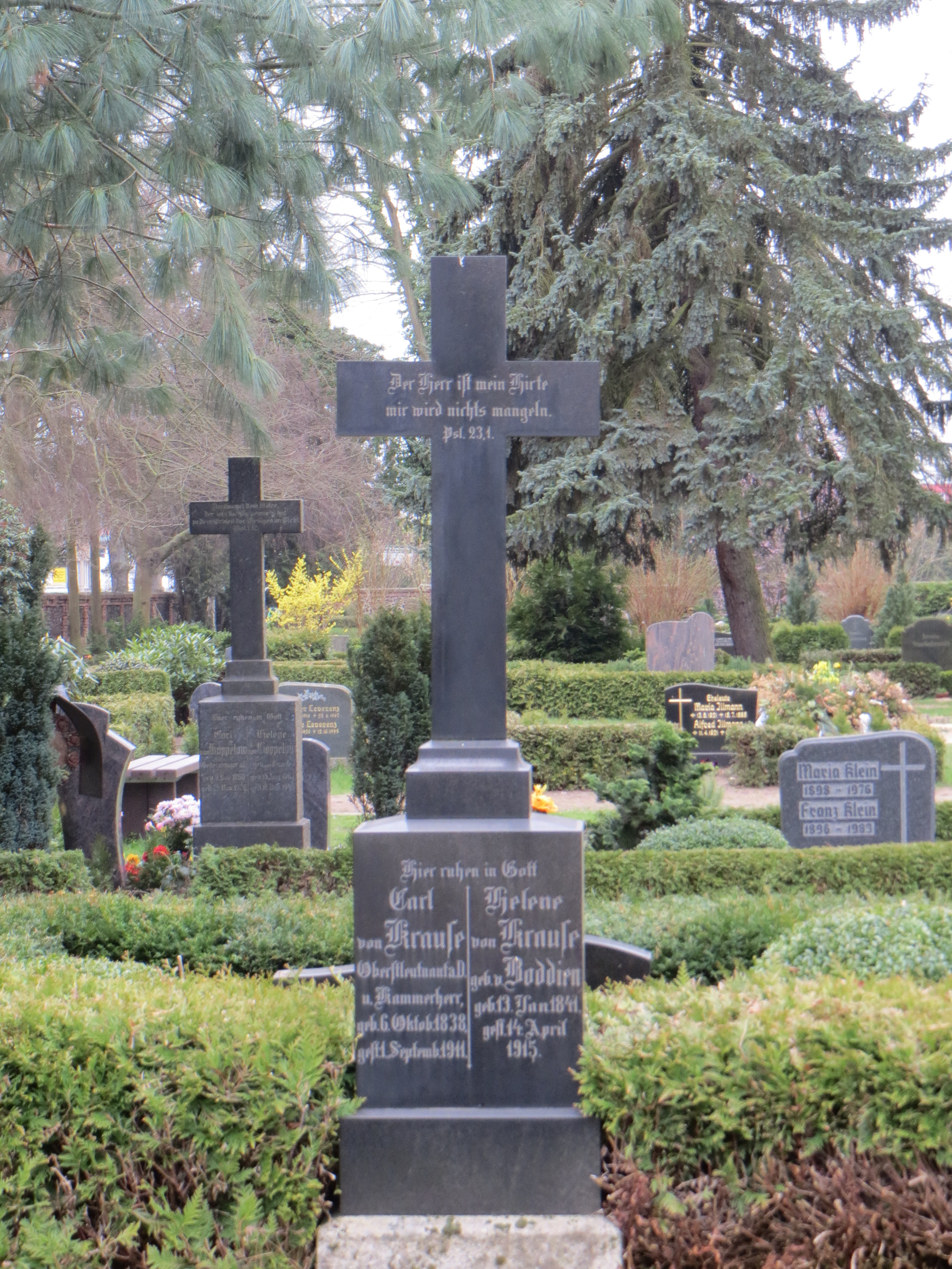 Friedhof Ludwigslust